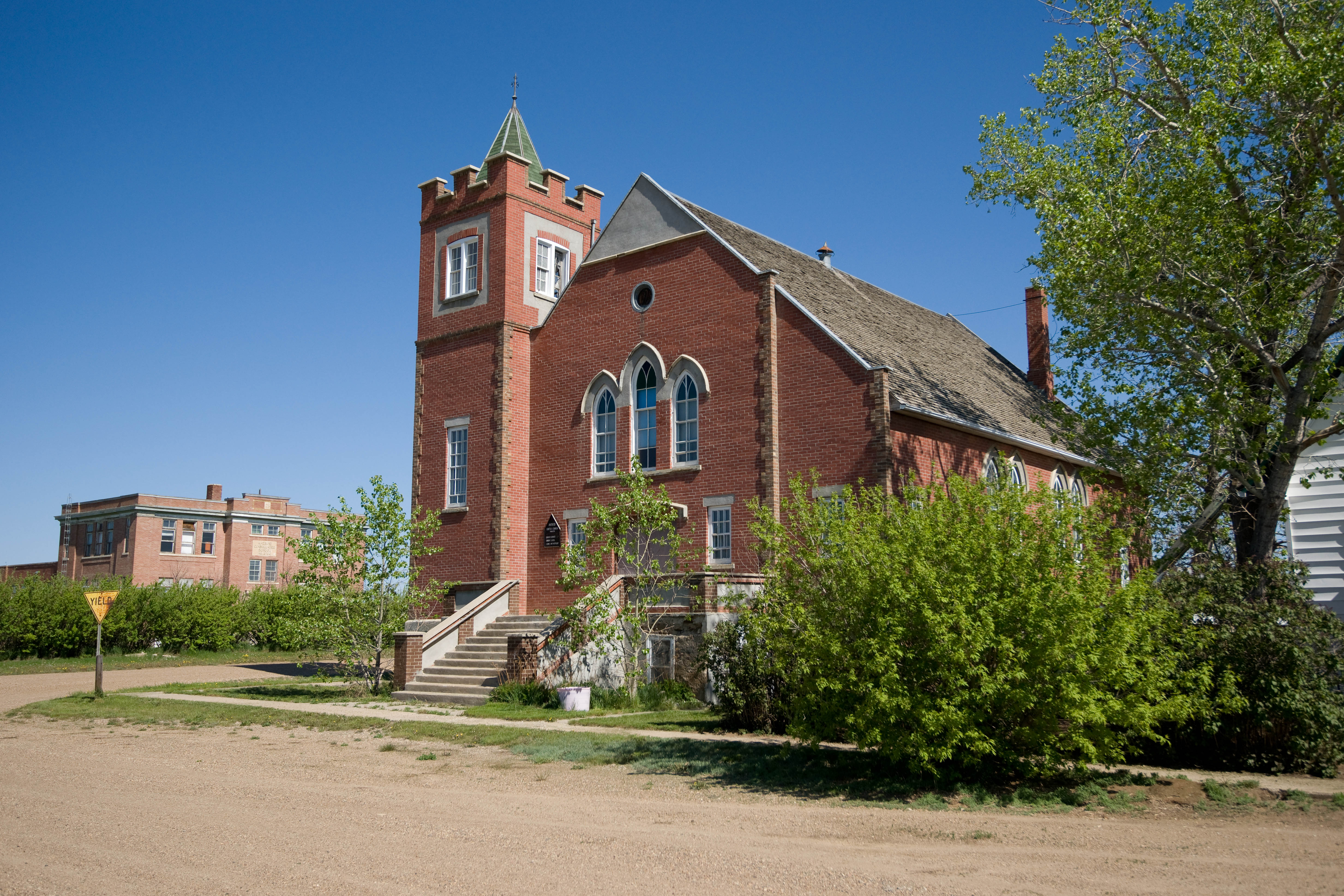 Aneroid United Church in Aneroid, Saskatchewan, Canada. From